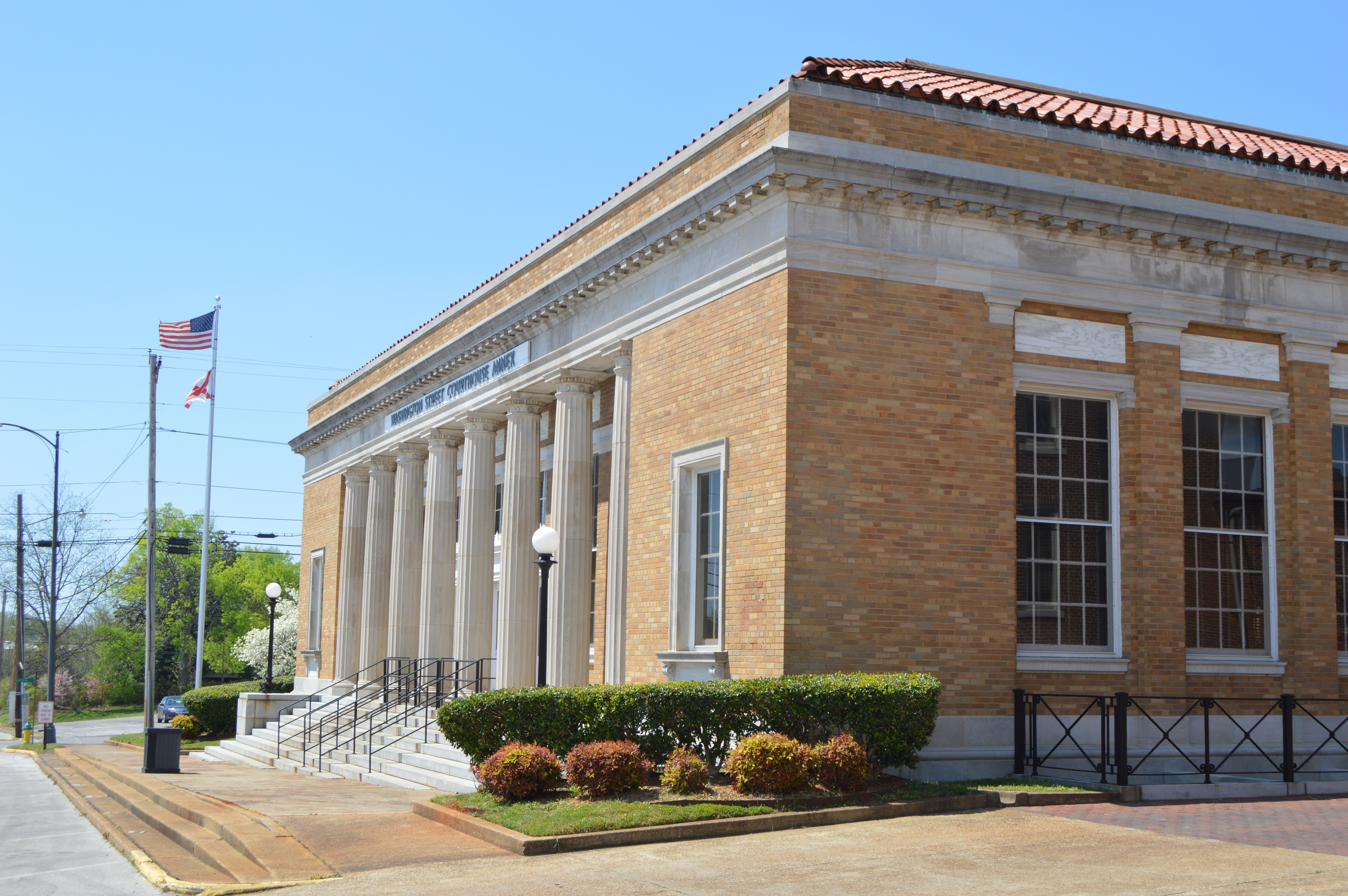 Front of the former post office in Athens, Alabama, United States, located at 310 W. Washington Street. Built in 1931, it is listed on the National Register of Historic Places.